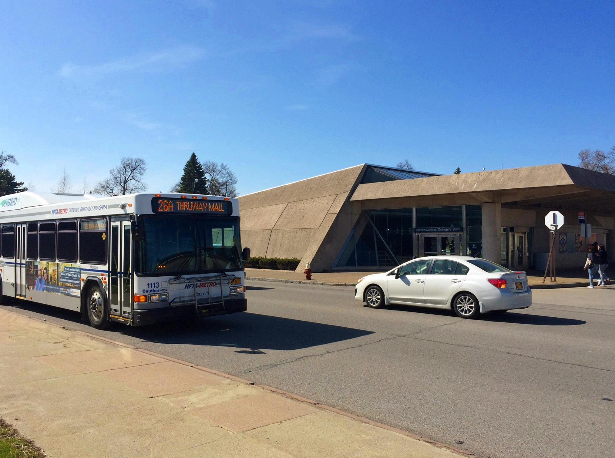 An outbound #26 bus passes by the Delavan/Canisius College Metro Rail Station in Hamlin Park, Buffalo, New York.